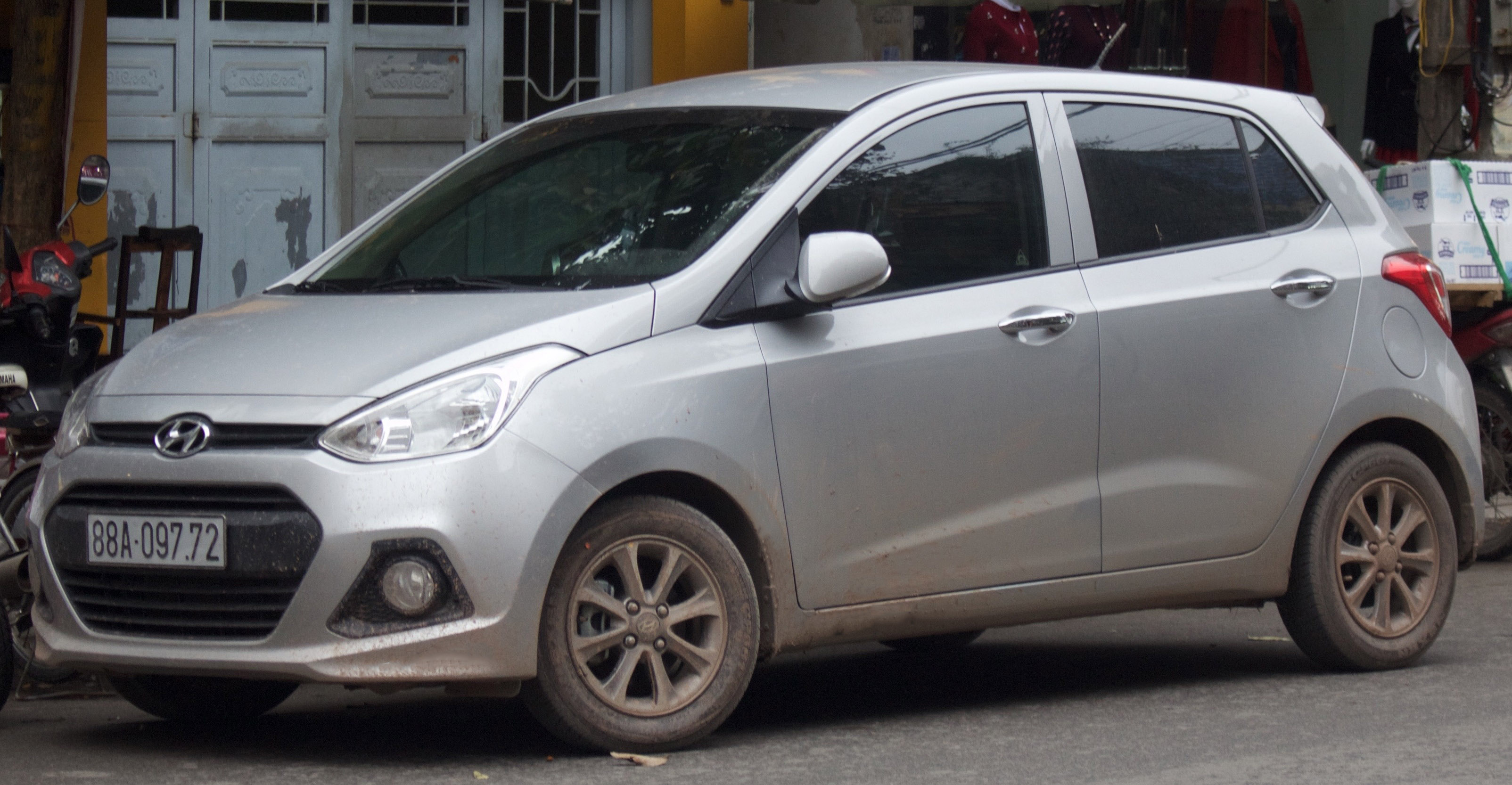 Silver Hyundai Grand i10, in Hanoi Vietnam